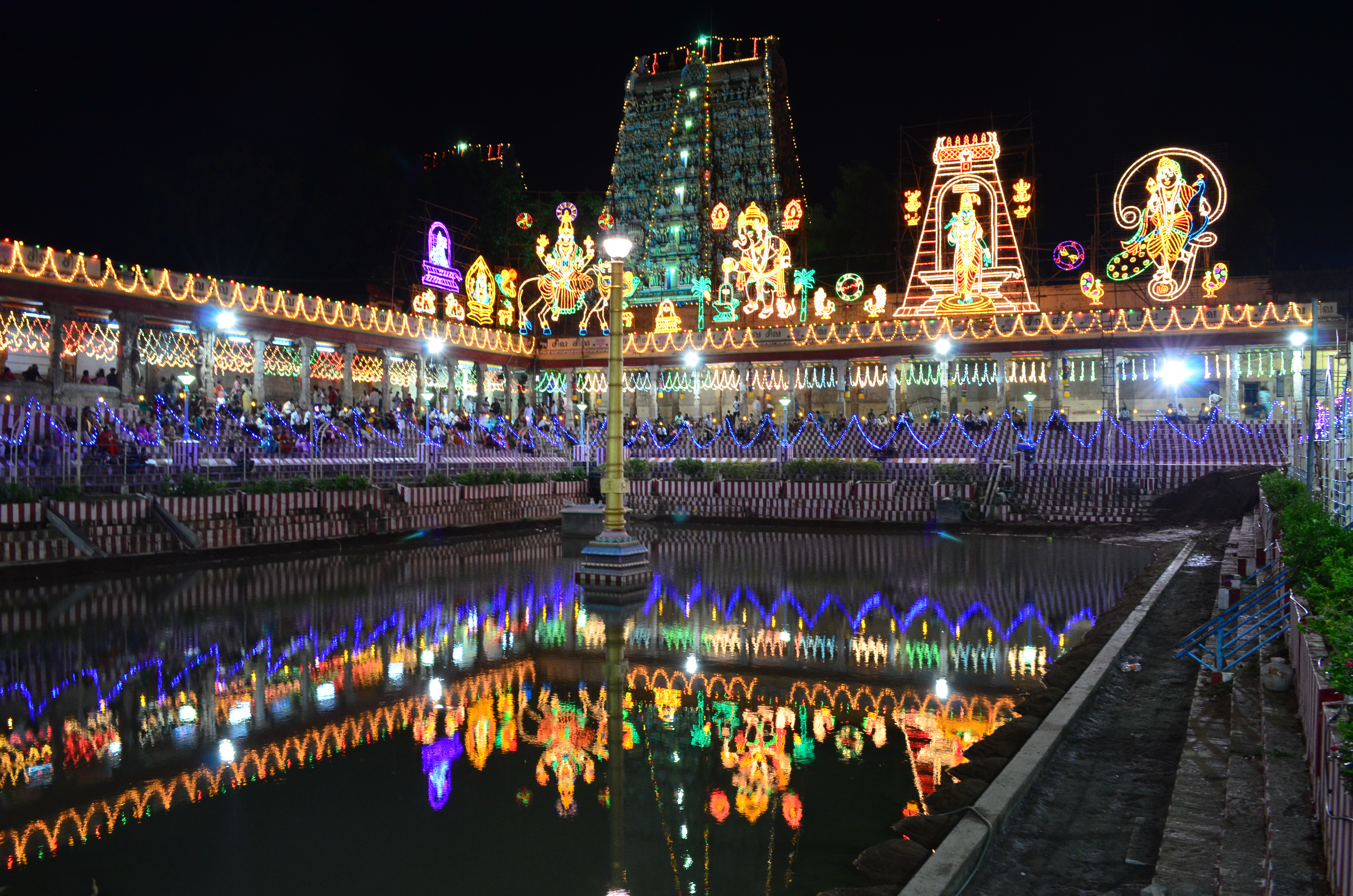 Madurai Meenakshi Amman Temple